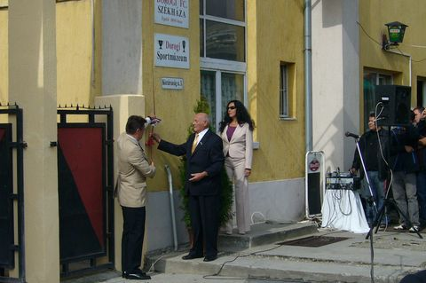 Ceremony of the stadium with Jenő Buzánszky on Miner's day, 2010.